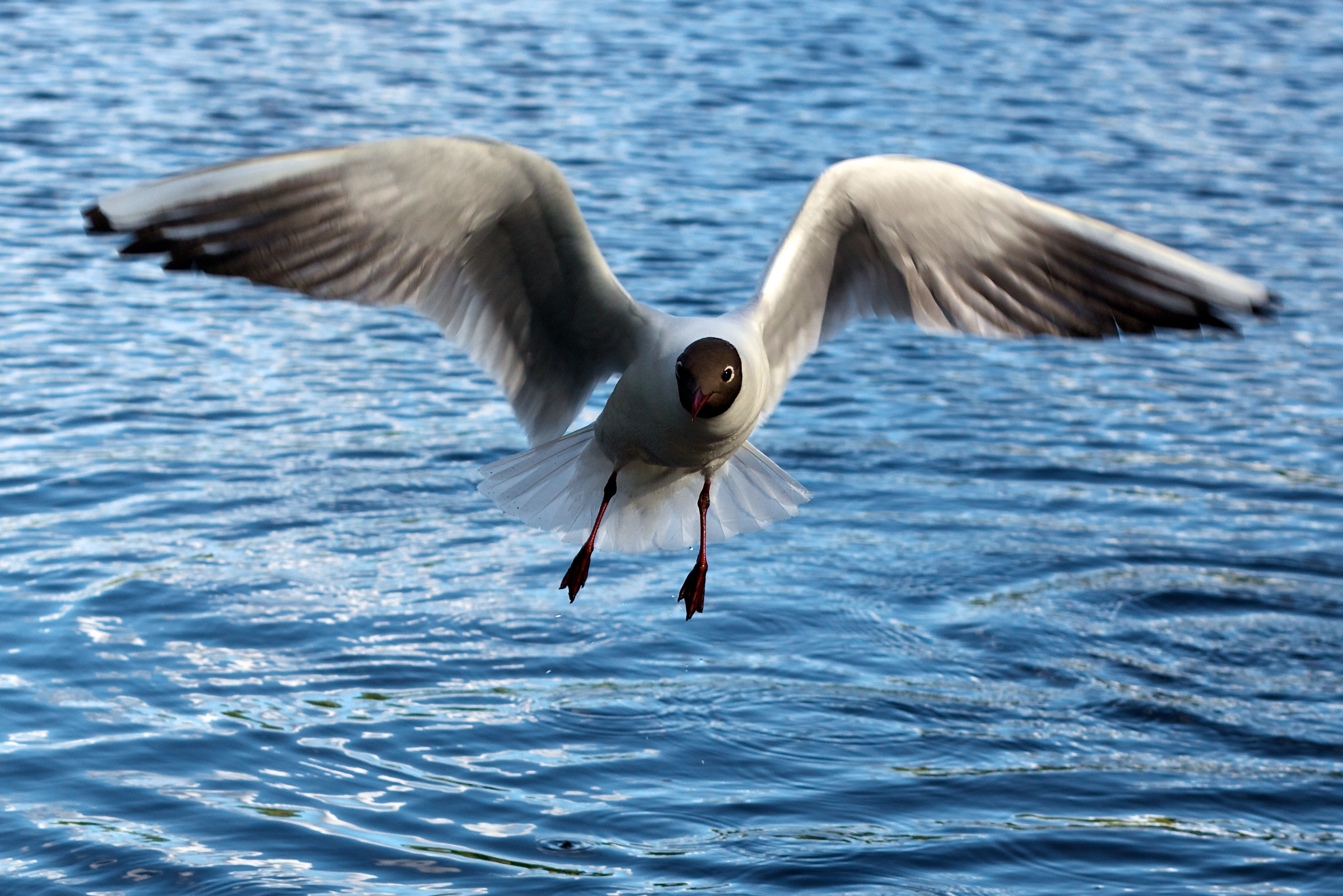 A black-headed gull (Chroicocephalus ridibundus) in flight. Shot in Kaukajärvi, Tampere, Finland.